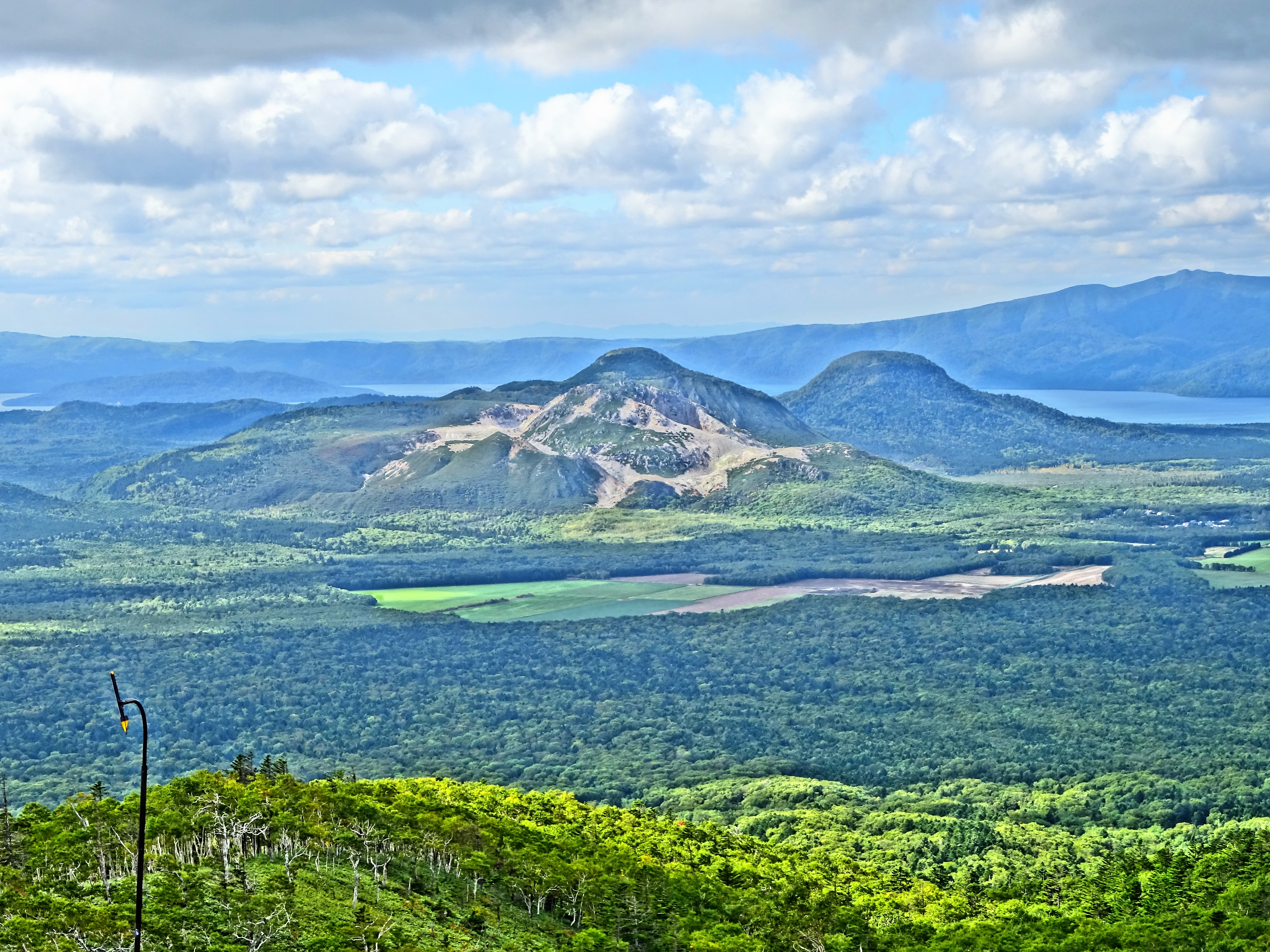 Mount Iō, also known as Atsosa Nupuri, JAPAN